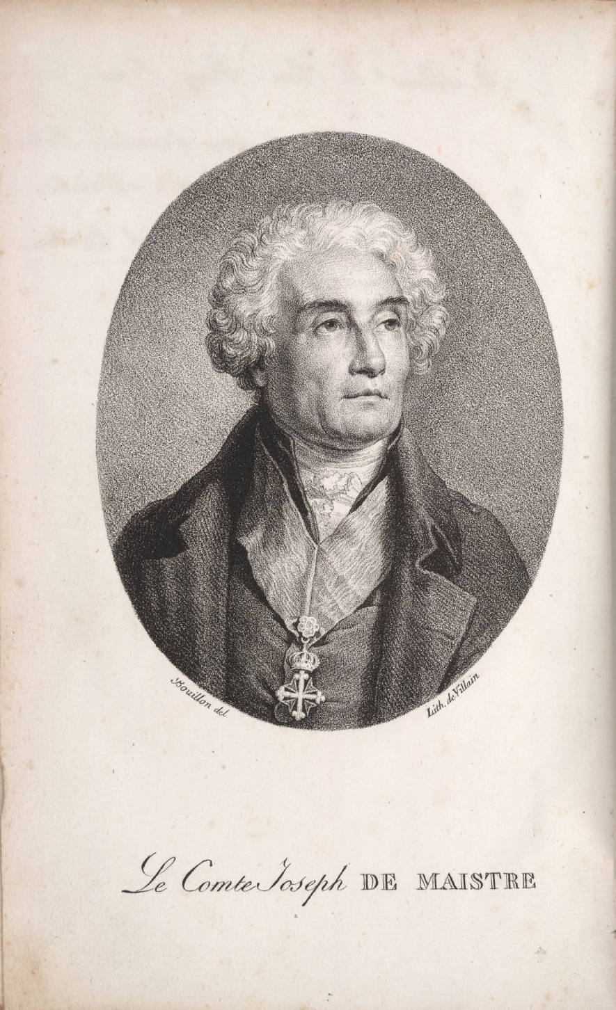 Lithograph of Joseph de Maistre from a painting by Pierre Bouillon. Taken from a book by de Maistre, Les soirées de Saint-Pétersbourg, ou, Entretiens sur le gouvernement temporel de la Providence : suivis d'un traité sur les sacrifices (Paris : Librairie grecque, latine et française, 1821). Cropped and slightly retouched.